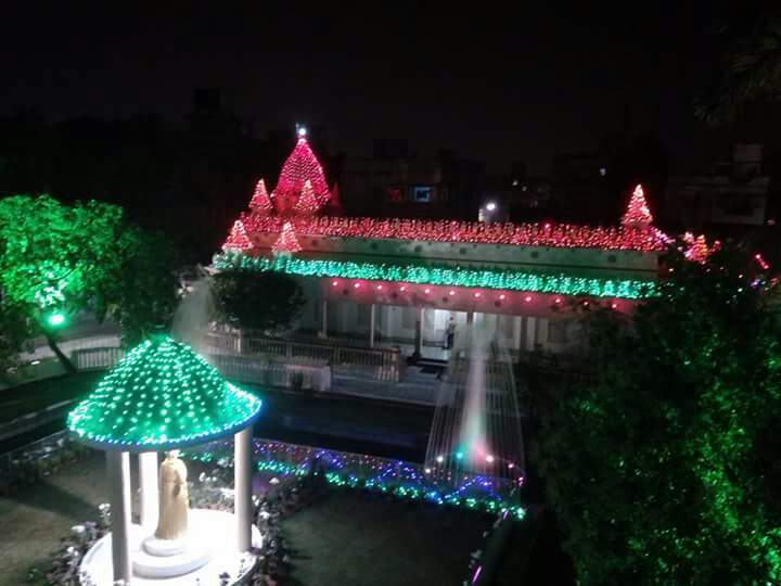 Lighting at BRKM temple during annual festival